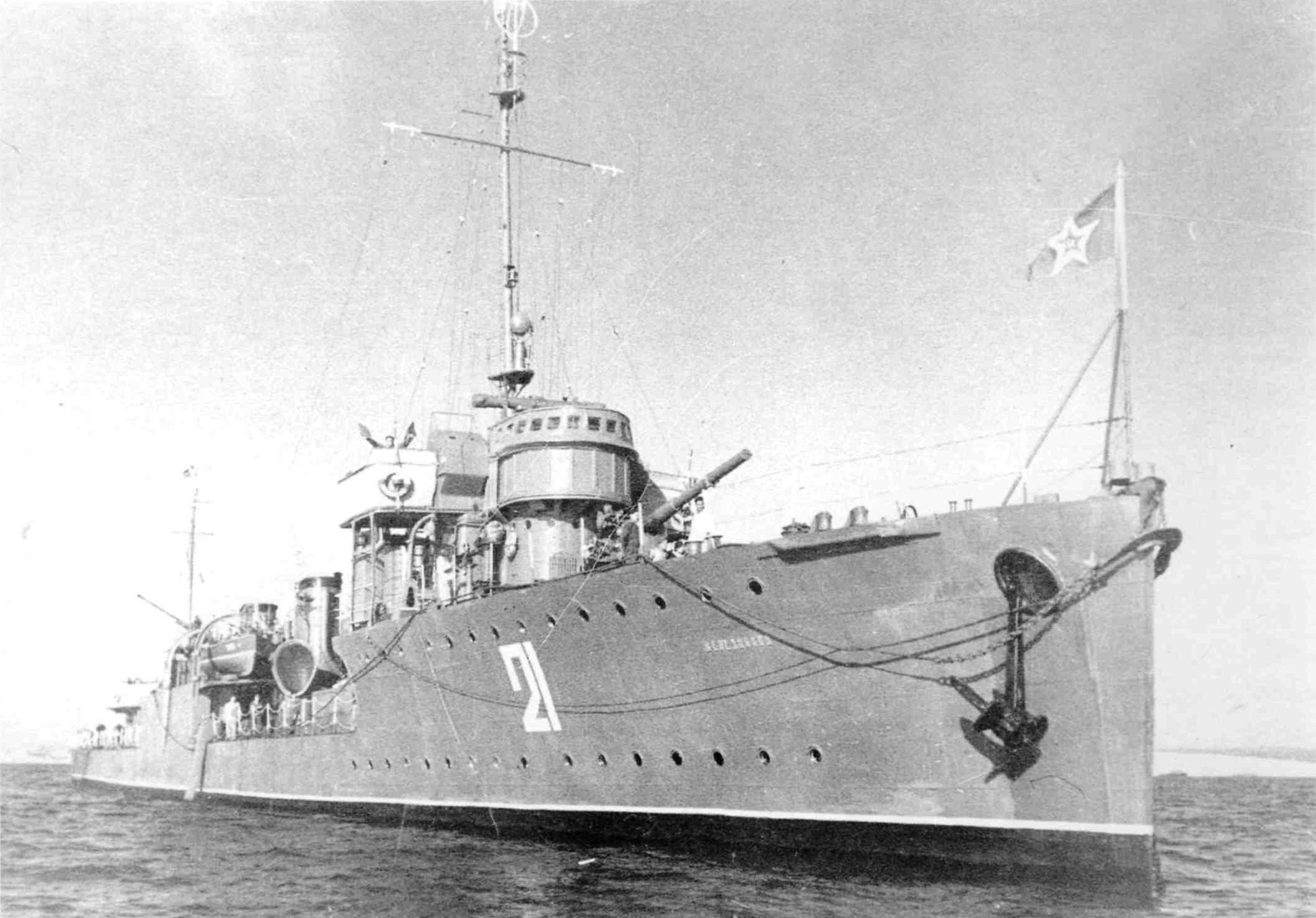 Soviet destroyer Zhelezniakov.